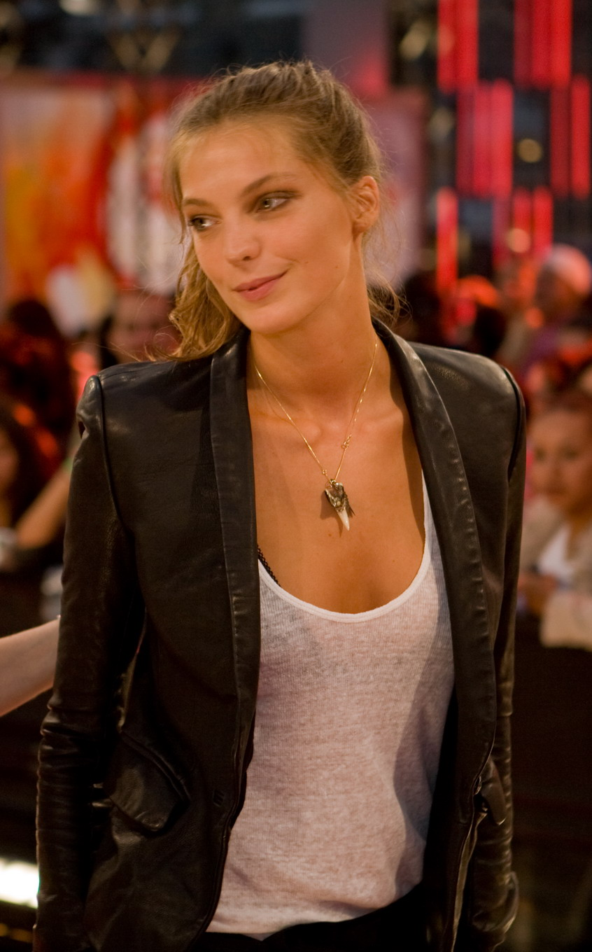 Daria Werbowy at the eTalk Festival Party, during the Toronto International Film Festival.